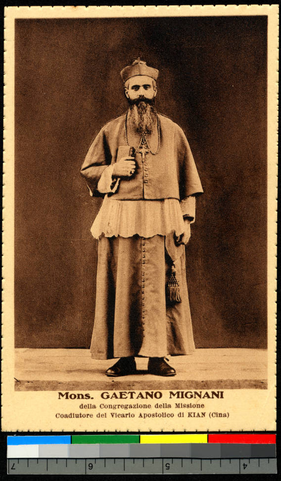 "Mons. Gaetano Mignani della Congregazione della Missione Coadiutore del Vicario Apostolico di Kian (Cina). " Bishop Gaetano Mignani is shown in his vestments wearing a cross and a ring. The following information is printed on the back of the postcard: "Le Missioni Estere Vincenziane, rivista mensile illustrata, pubblicata dai Preti della Congregazione della Missione. – Abbonamento ordinario L. 6, sosienitore L. 10. – Direzione: Casa della Pace - (Torino). Cartolina artistica delle Missioni Estere Vincenziane." There is no handwriting on the back.